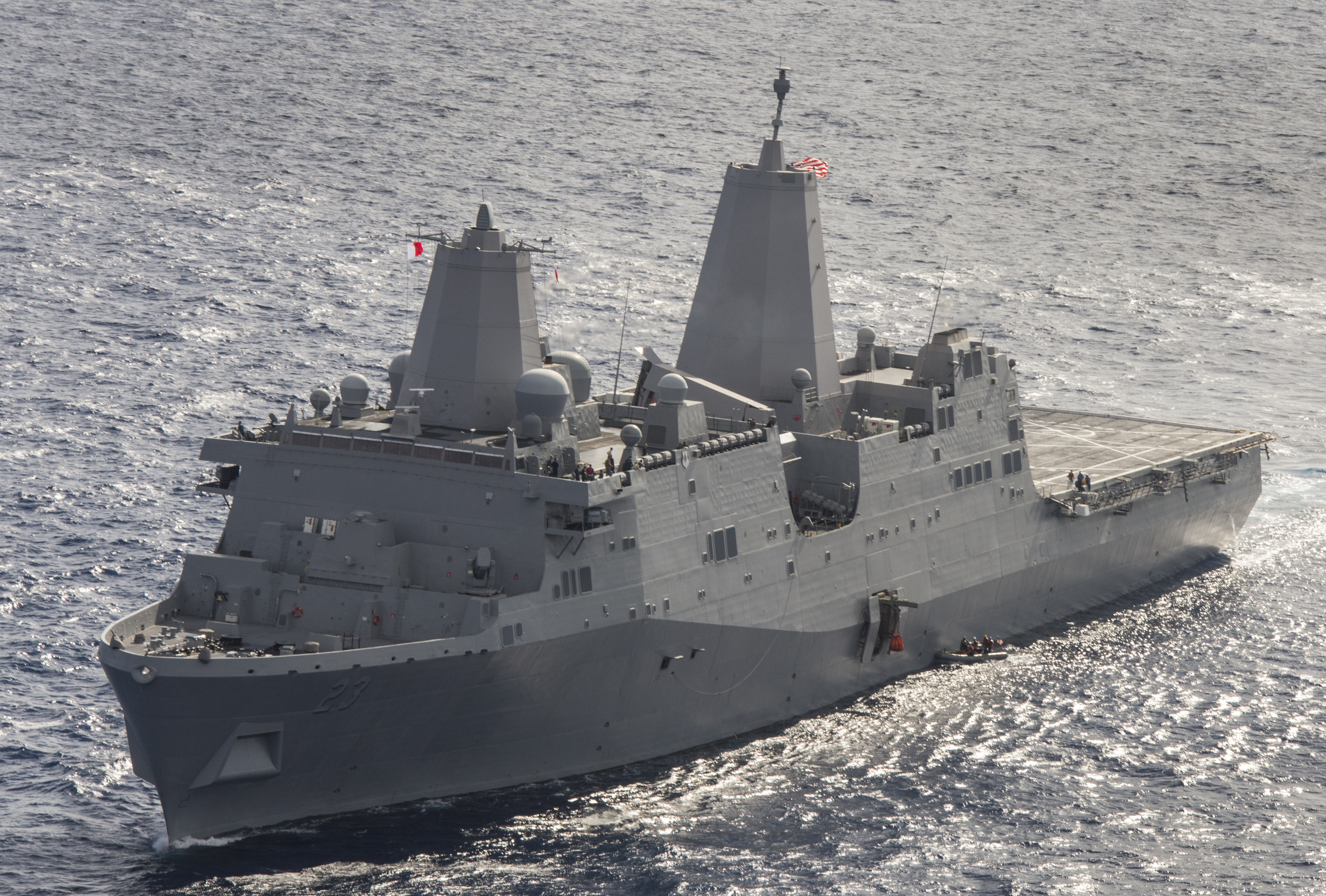 PACIFIC OCEAN (Dec. 5, 2014) Amphibious transport dock, USS Anchorage (LPD 23), Sailors recover parachutes from the NASA Orion Crew Module while conducting the first exploration test flight for the NASA Orion program. EFT-1 is the fifth at sea testing of the Orion Crew Module using a Navy well deck recovery method.